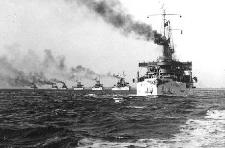 USS Connecticut (BB-18) leads the Great White Fleet out of Hampton Roads, Virginia, on its world tour in 1907. The stereoscopic image, from which this portion comes from, has been published for educational purposes in 1915. [McMurry, Frank Morton (1915) The World Visualized for the Classroom: 1000 Travel Studies Through the Stereoscope and in Lantern Slides, Classified and Cross Referenced for 25 Different School Subjects; Teachers' Manual, Underwood & Underwood, pp. 11 Retrieved on 10 February 2009.]